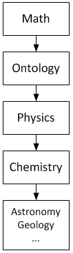 Math is prerequisite to Ontology. Math and Ontology are prerequisite to Physics. Math, Ontology and Physics are prerequisite to Chemistry